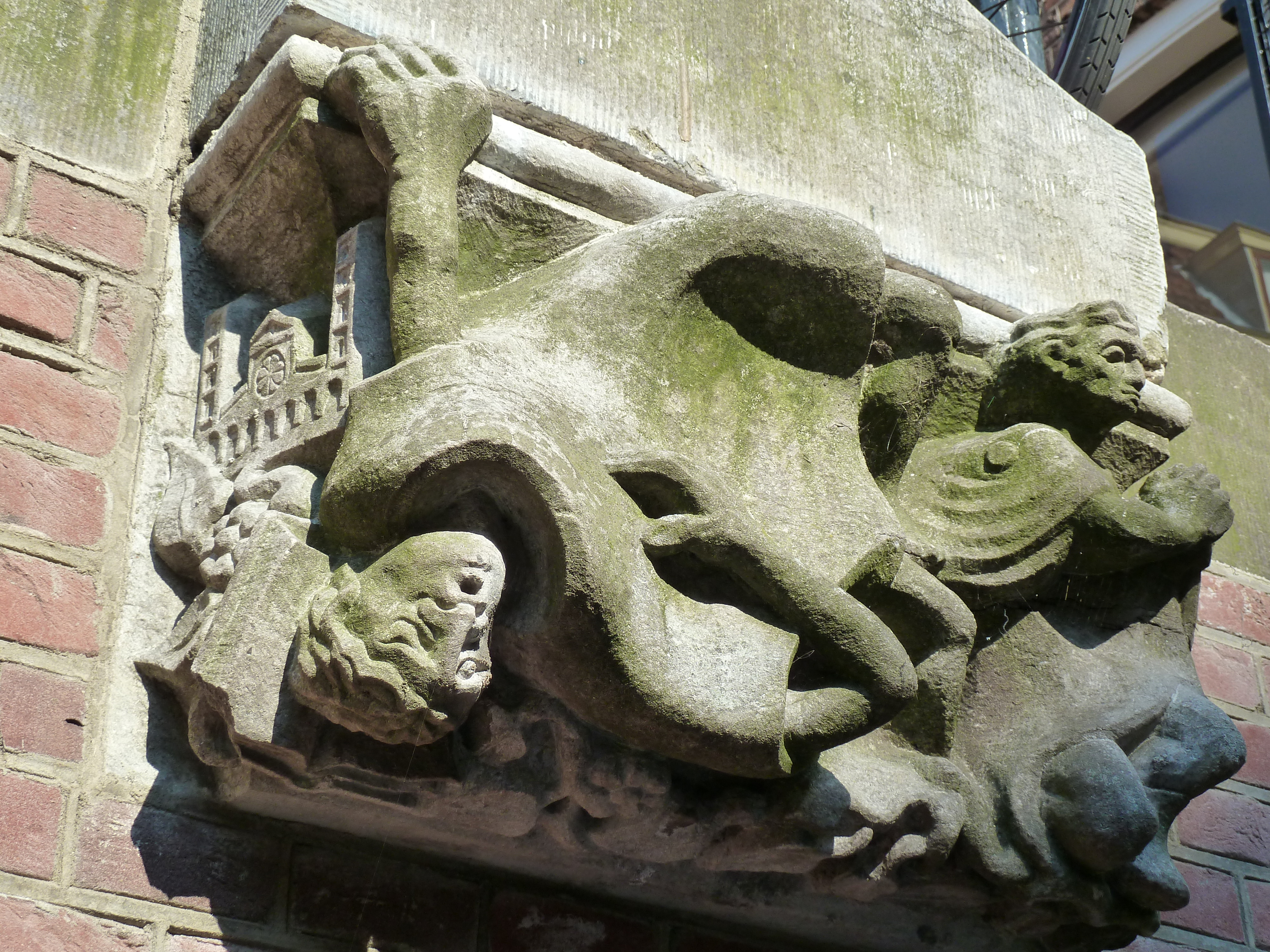 Assassination of bishop Conrad. Streetlight corbel, Lichte Gaard 9, Utrecht, NL.